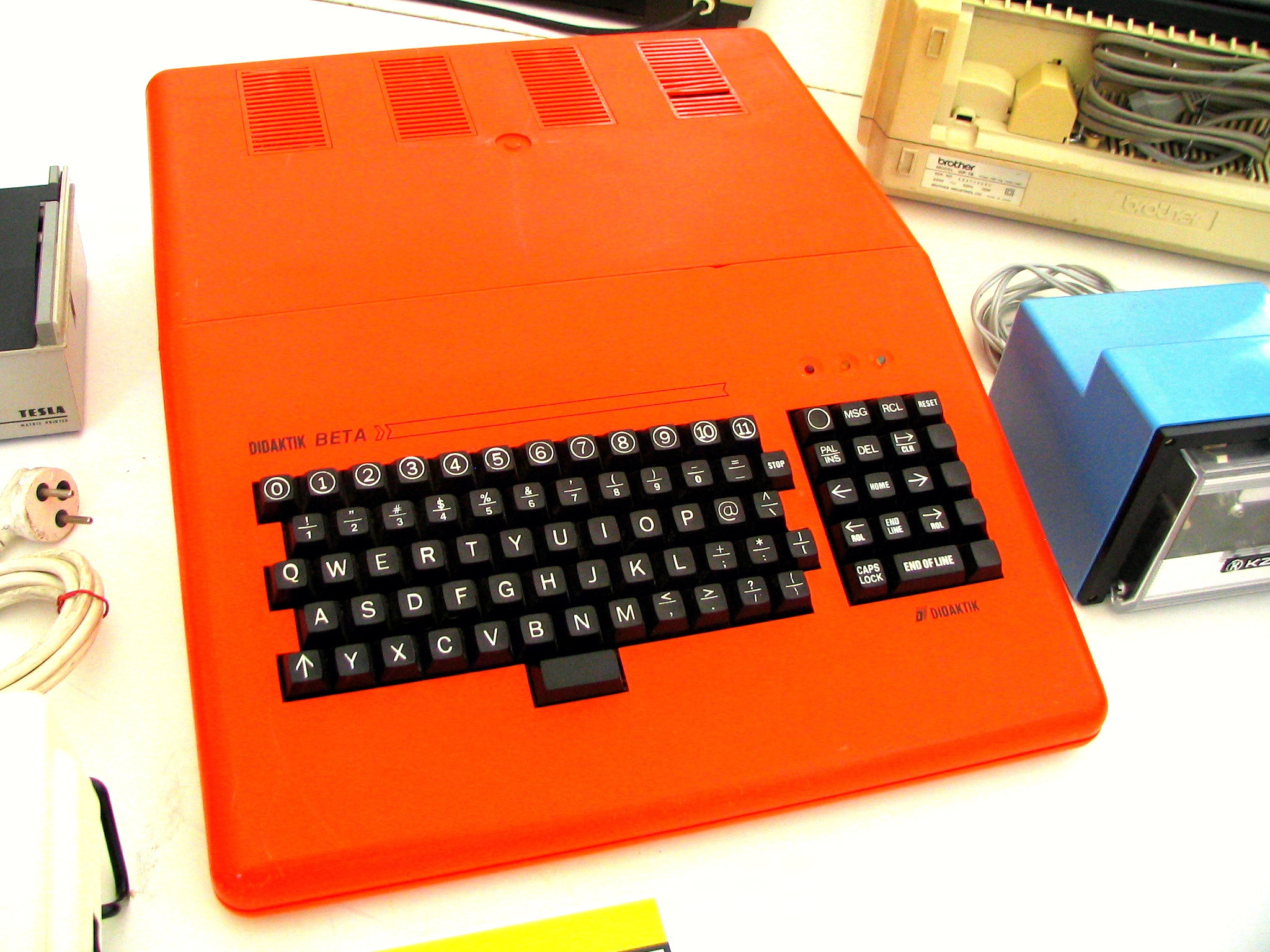 8bit computer Didaktik Beta